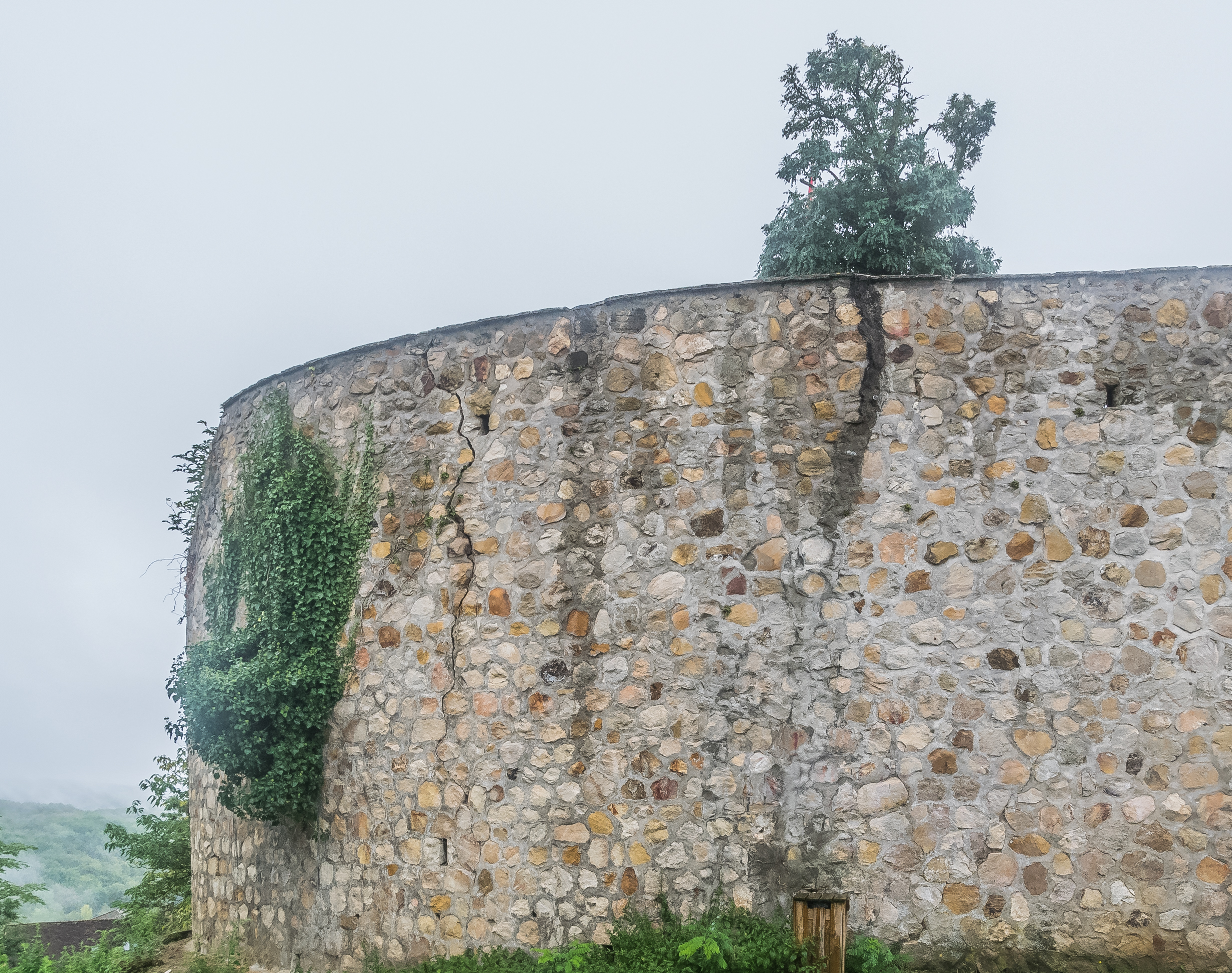 Wall of the belvedere in Gourdon, Lot, France